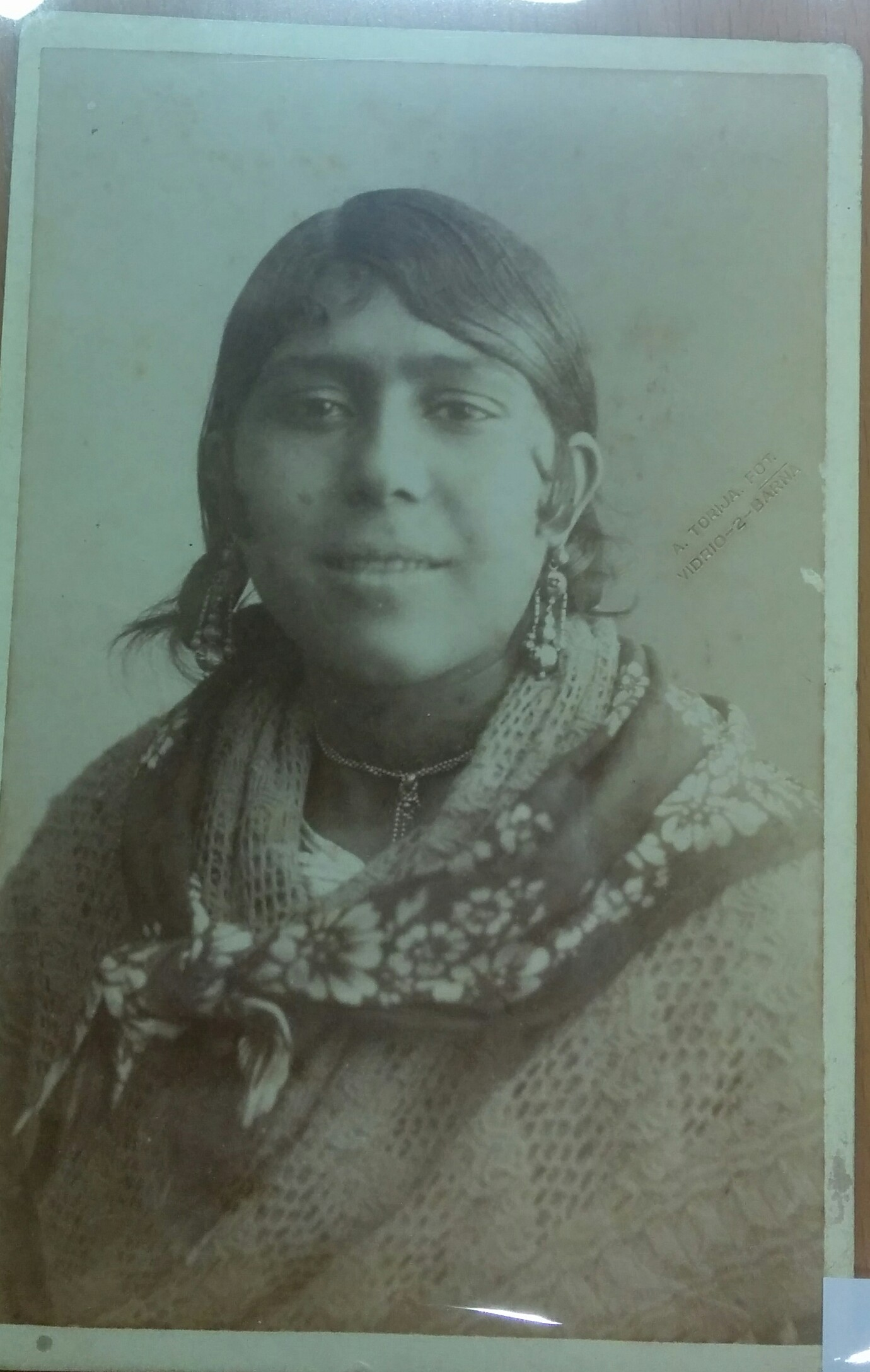 Encàrrec privat.